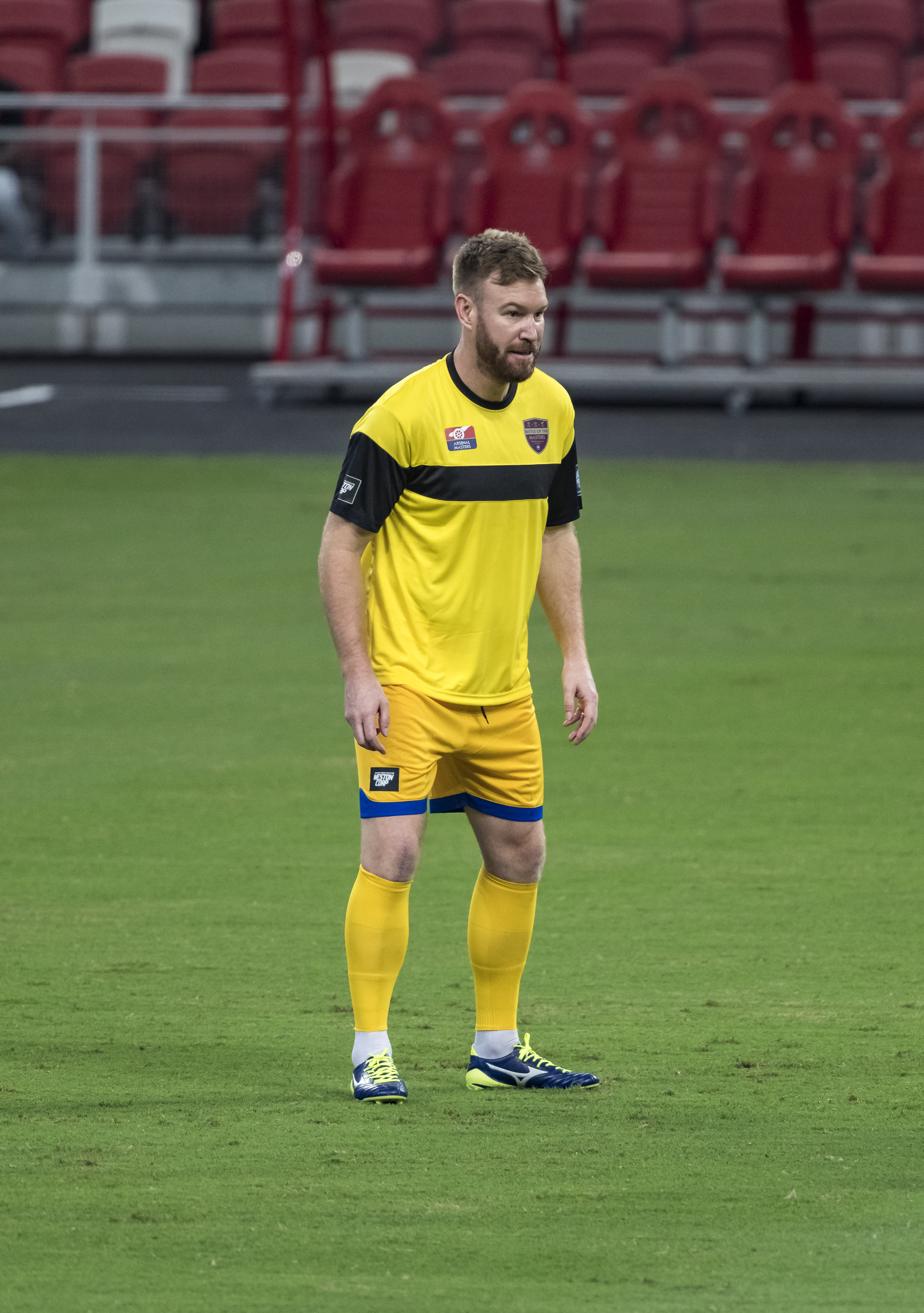 rhys weston arsenal masters singapore national stadium 2017